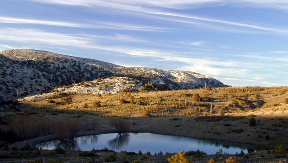 Mount Sipylus, Manisa Atalanı area and crater lake near the summit.